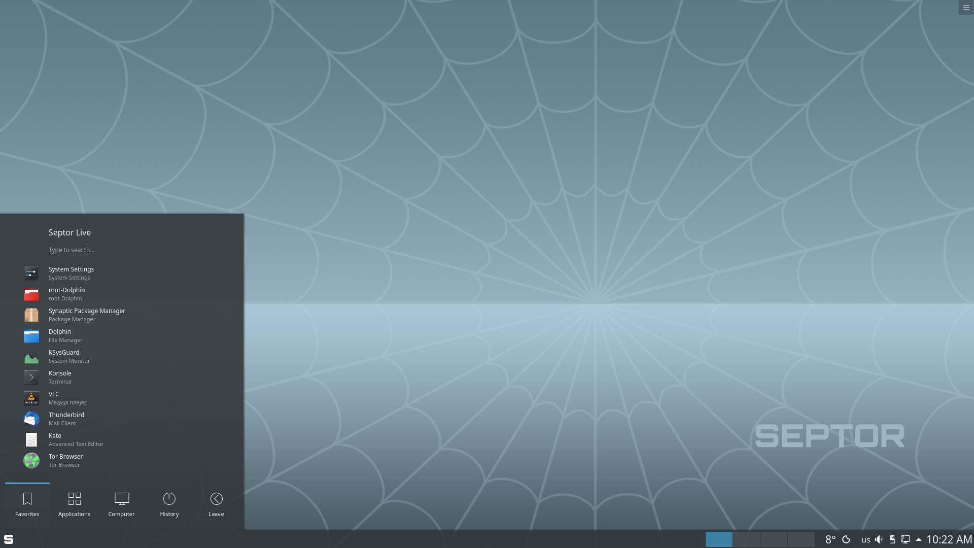 Operating system